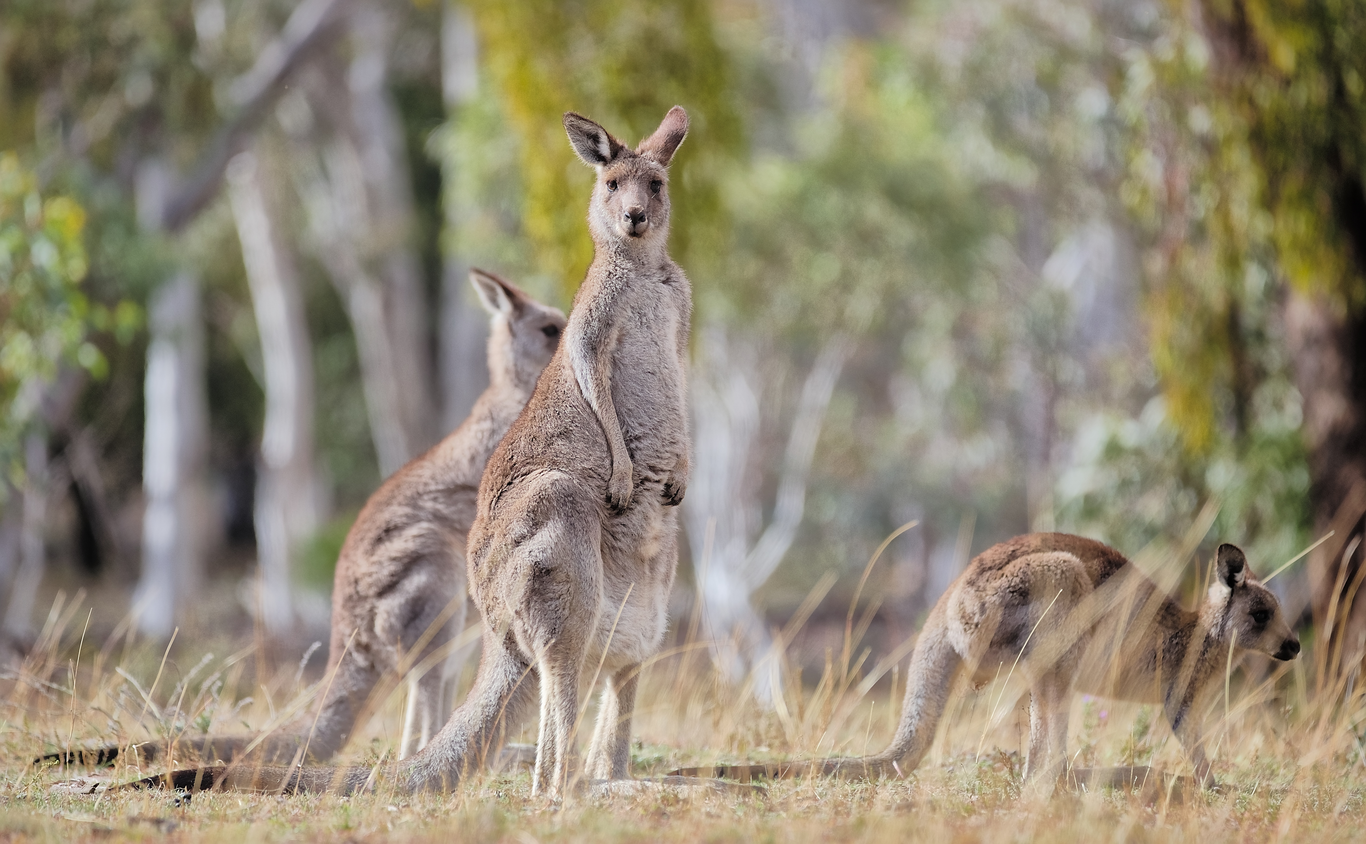 Eastern Grey kangaroos at Majura Nature Reserve, ACT.